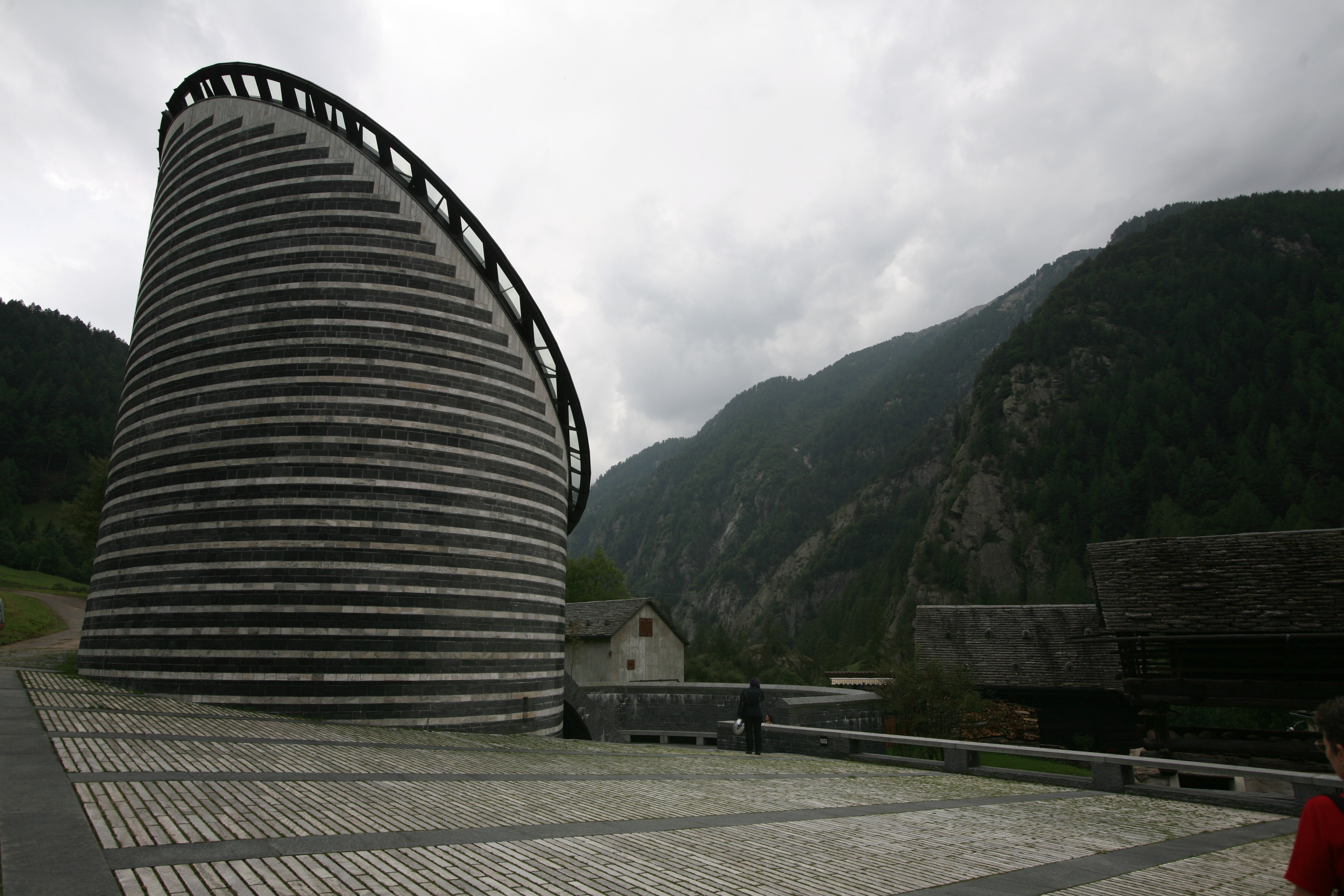 Church of St John the Baptism in Mogno, by Mario Botta